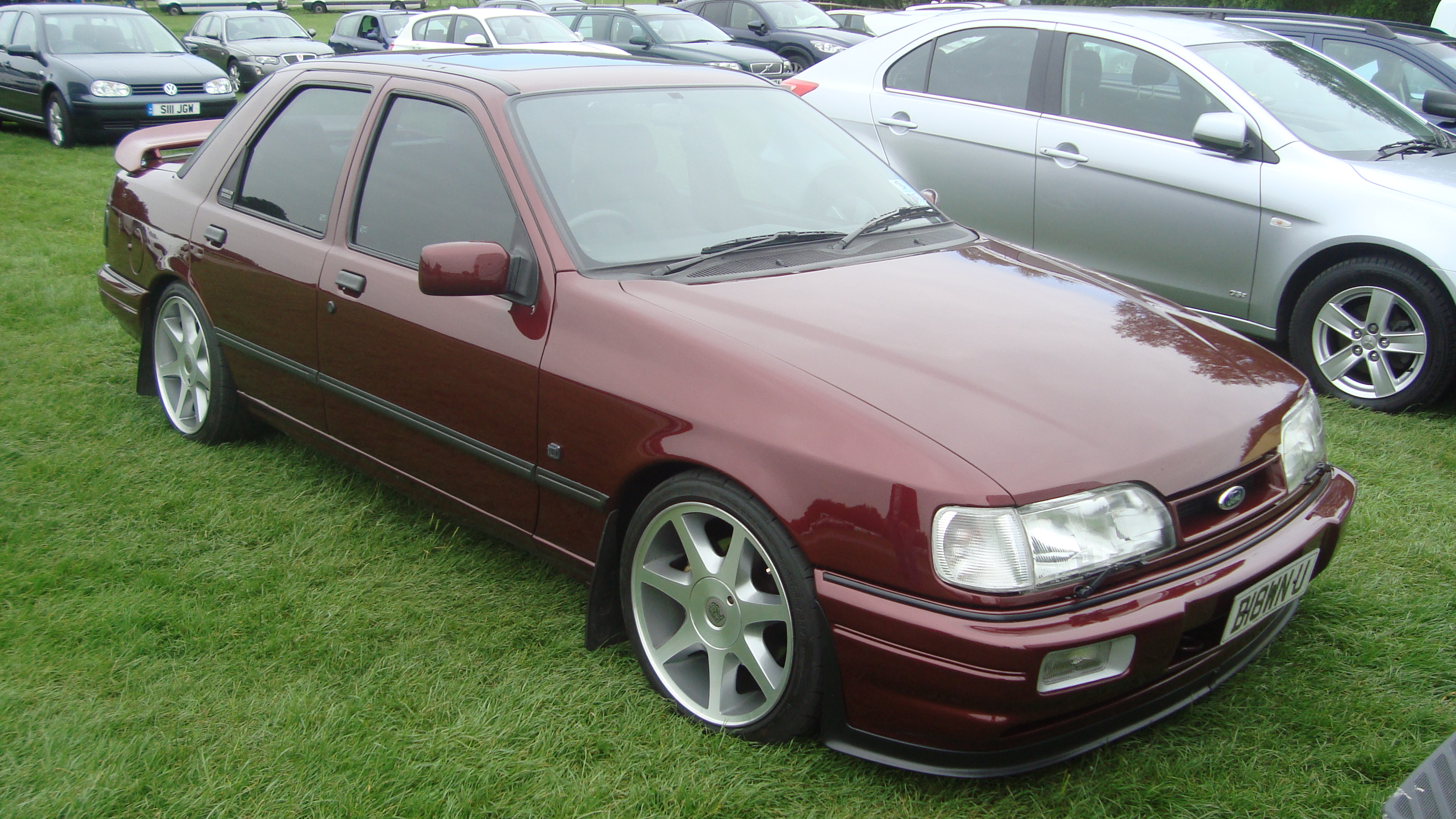 1990 Ford Sierra Sapphire RS Cosworth